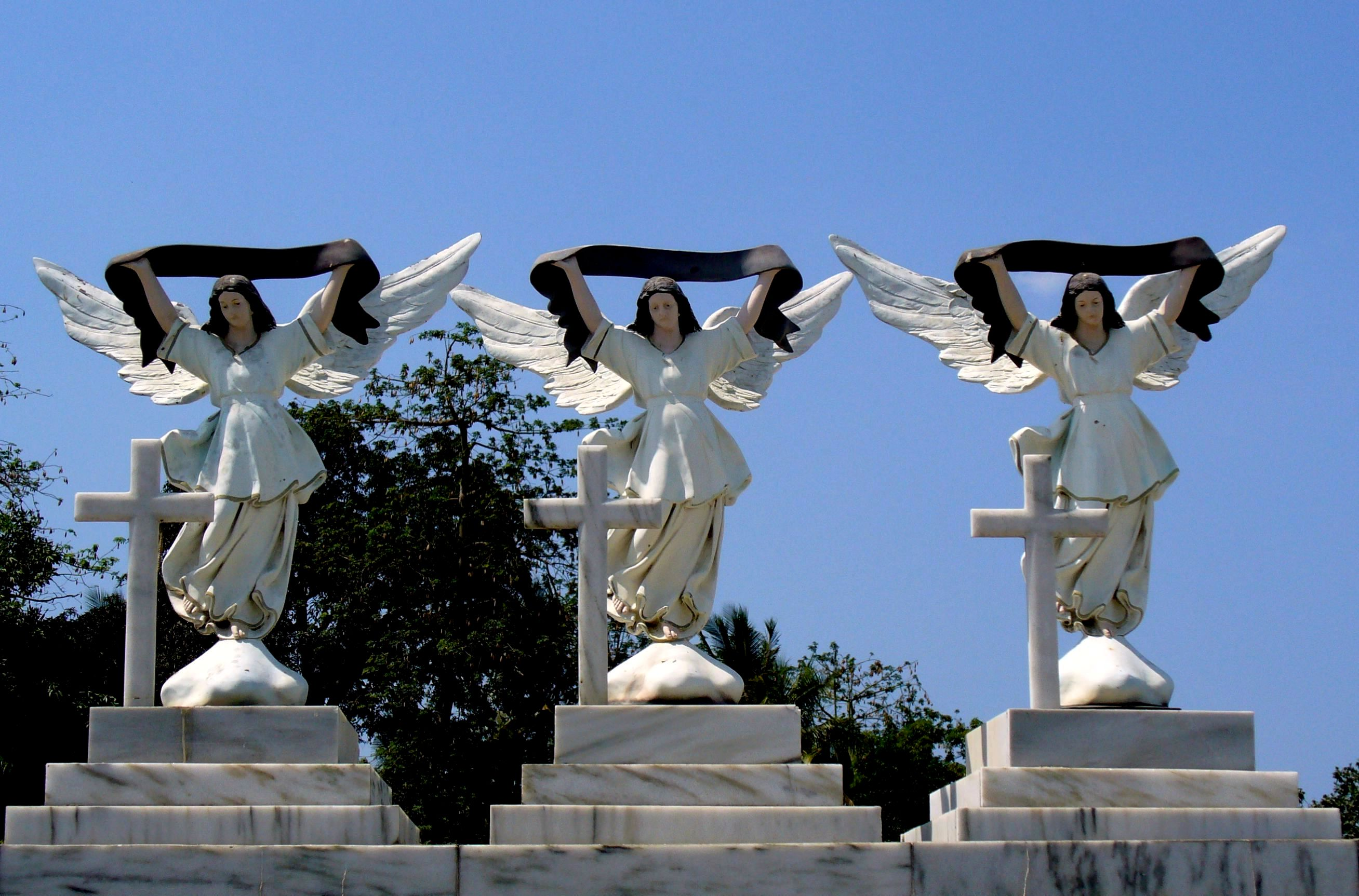 Santa Cruz Cemetery, Dili, East Timor